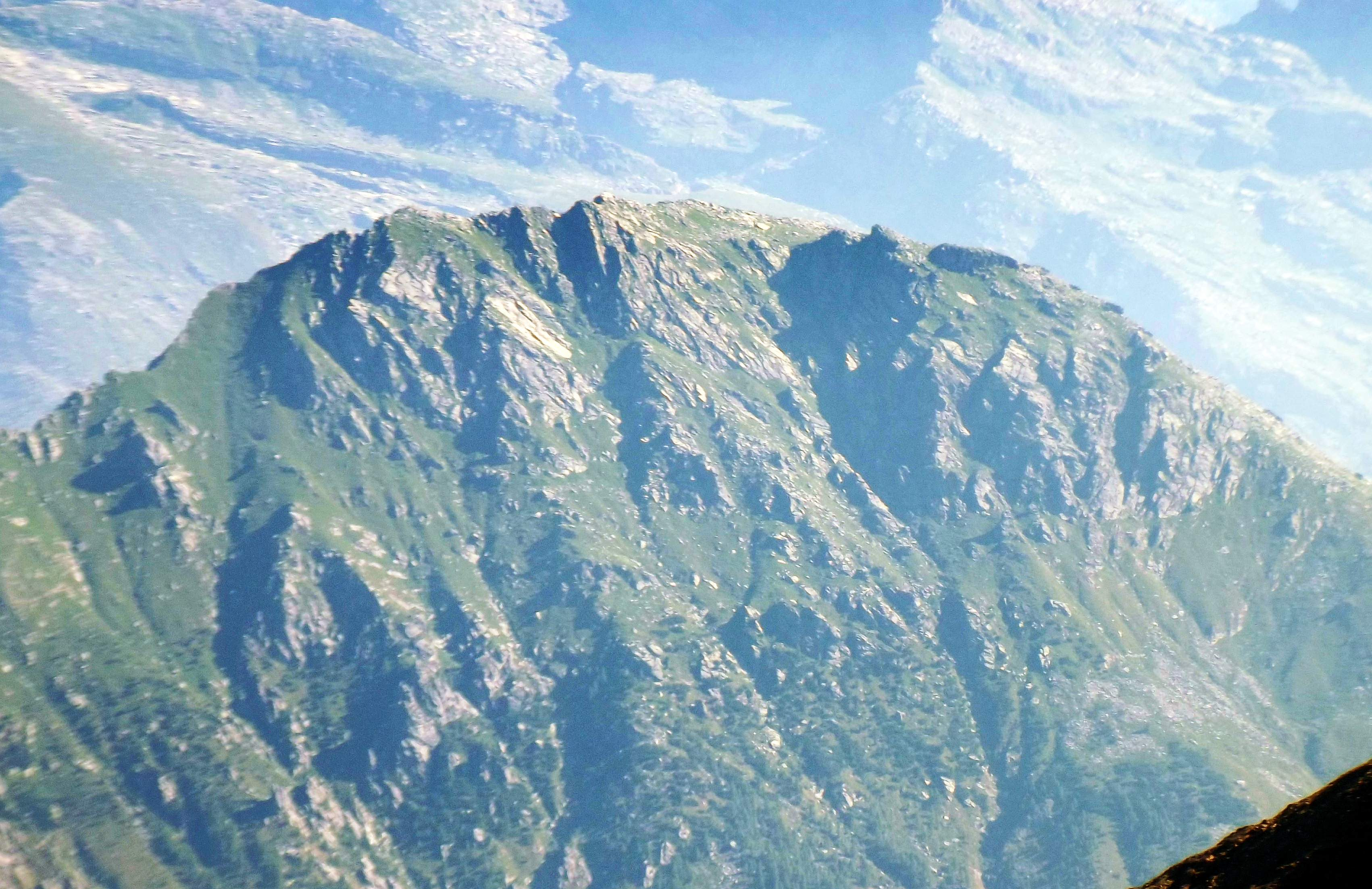 Monte Doubia (Graian Alps, TO, Italy) as seen from Cima Chiavesso